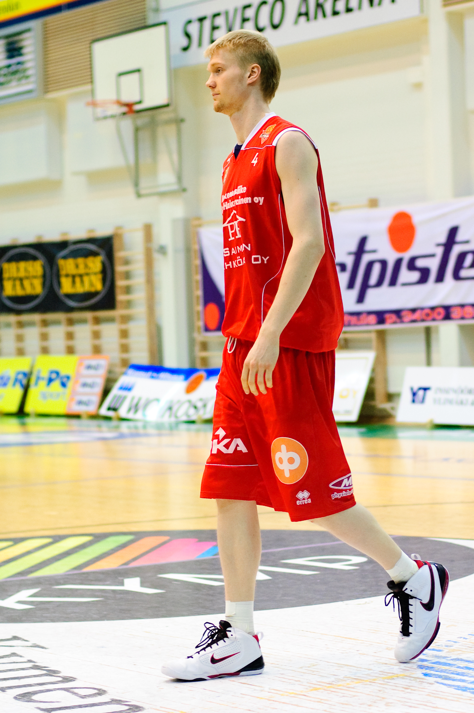 Finnish basketball player Joonas Suotamo playing for Lappeenrannan NMKY against KTP-Basket at Steveco Areena in Kotka, Finland. KTP-Basket won the Finnish Basketball league playoff game 106-70 and advanced to the semi-final round by winning the series 3-0.